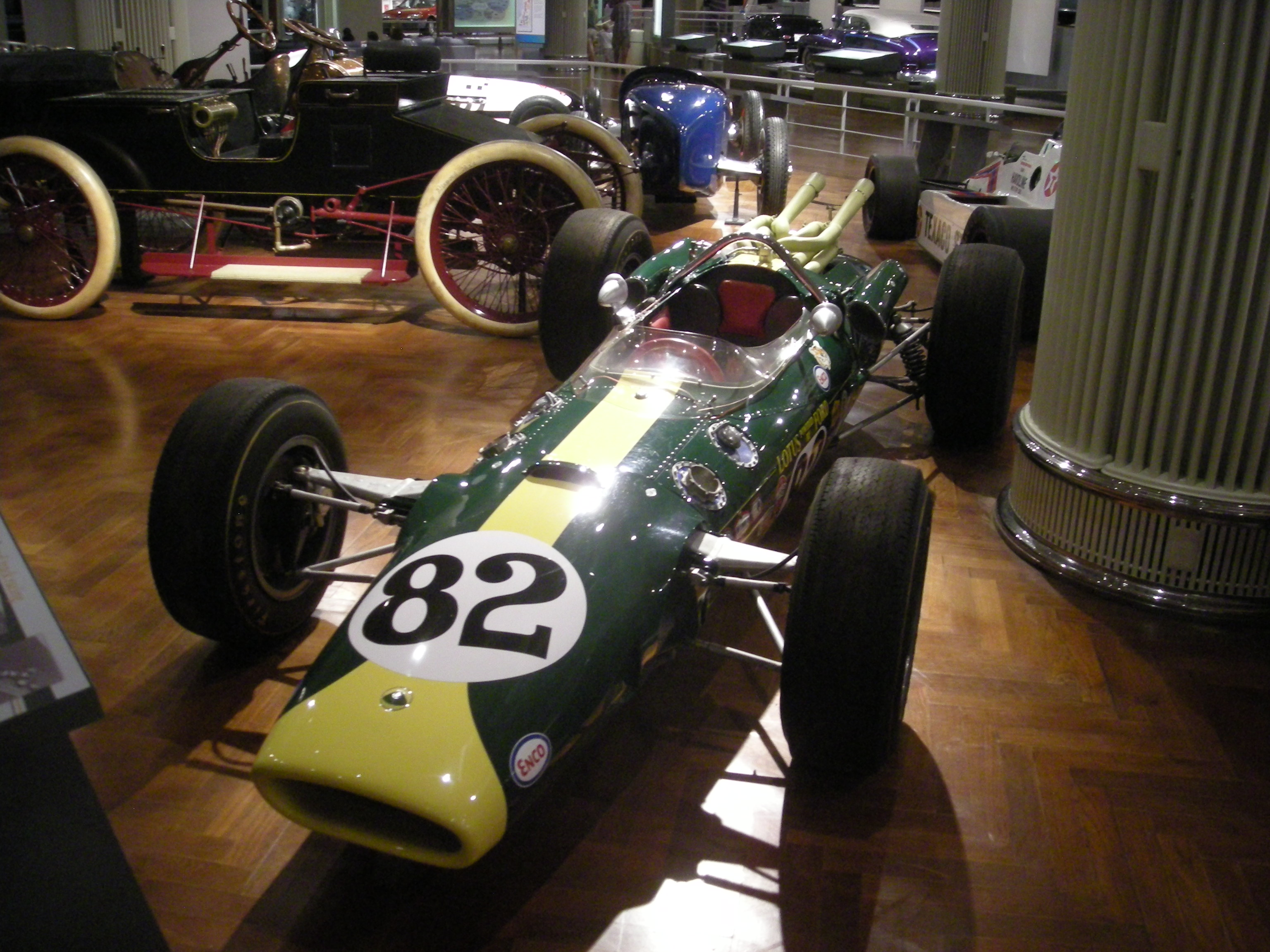 Jim Clark's 1965 Lotus-Ford (Lotus 38) on display at the Henry Ford Museum in Dearborn, Michigan (United States).